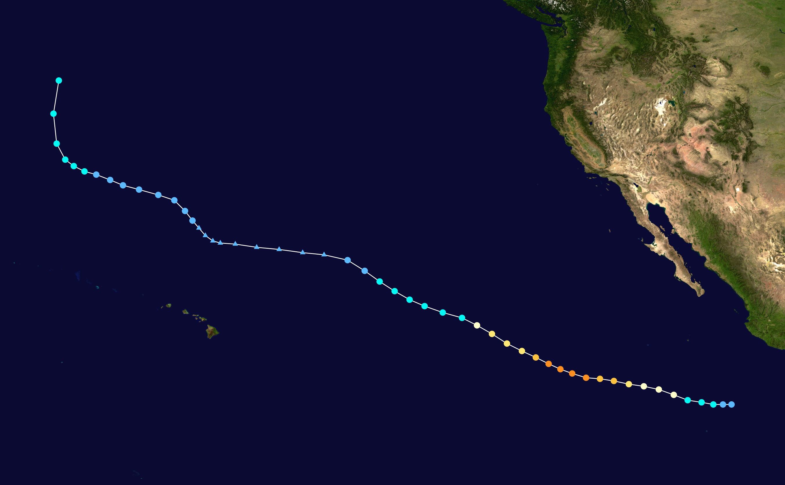 Hurricane Fausto (2002) track. Uses the color scheme from the Saffir-Simpson Hurricane Scale.